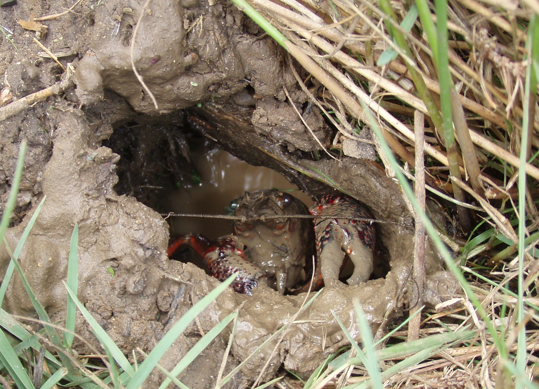 Crayfish (Astacidae) is digging his burrow